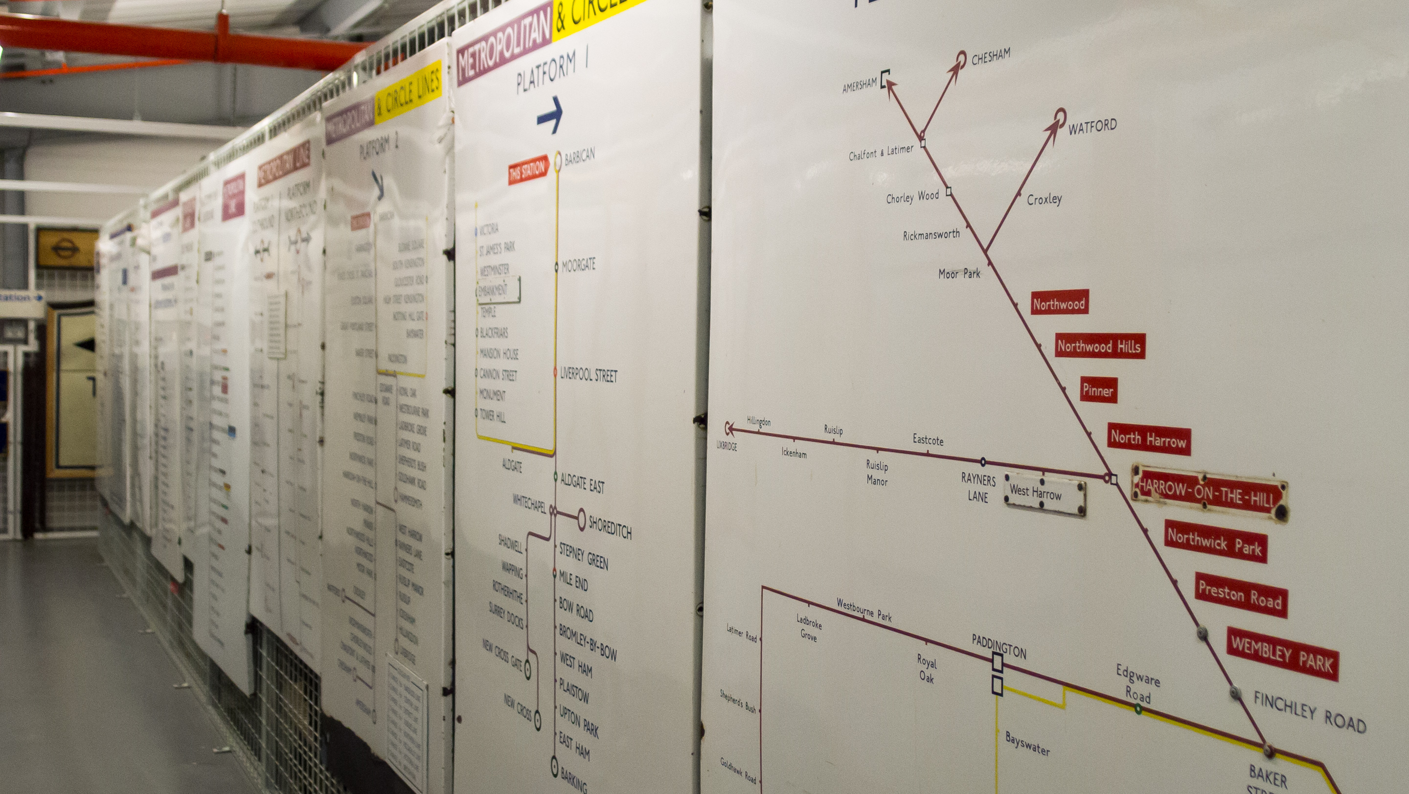 Sign display at London Transport Museum Acton Depot